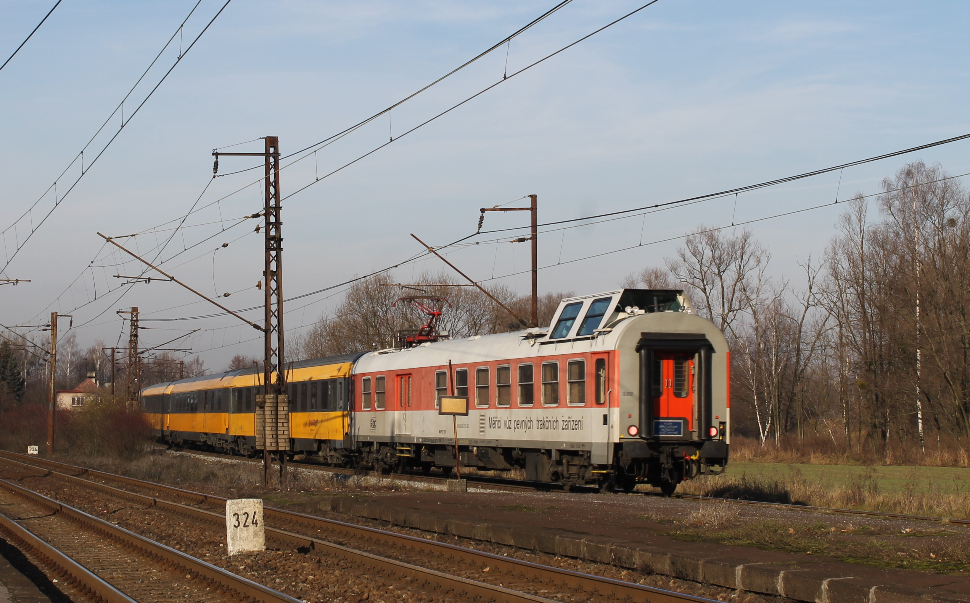 Measuring car for overhead contact lines of SŽDC, Chotěbuz (Czech Republic). The measuring car is designed for measuring catenary parameters up to the speed of 160 km/h. The system acquires, in any climatic conditions, many data, which are then processed on board and in the office in order to identify the state of the pantograph and the overhead line.